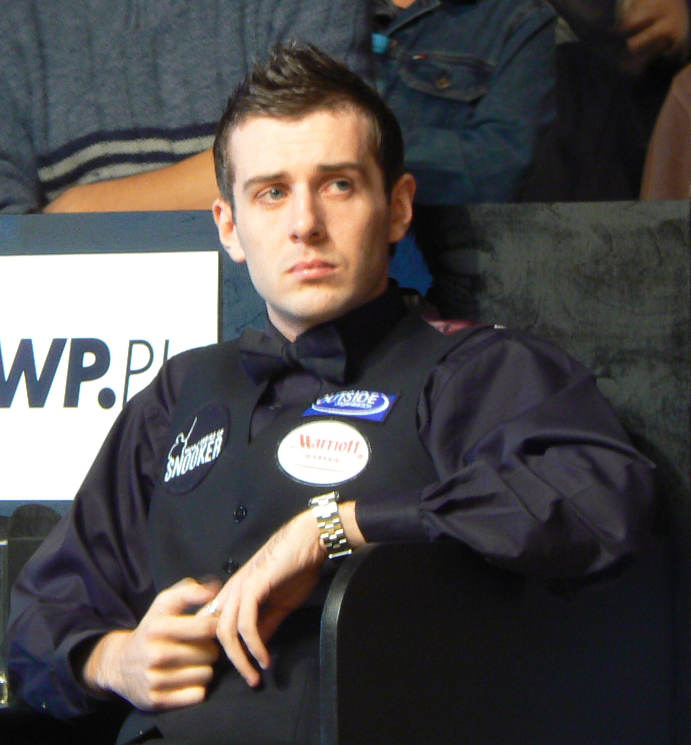 Cropped version.